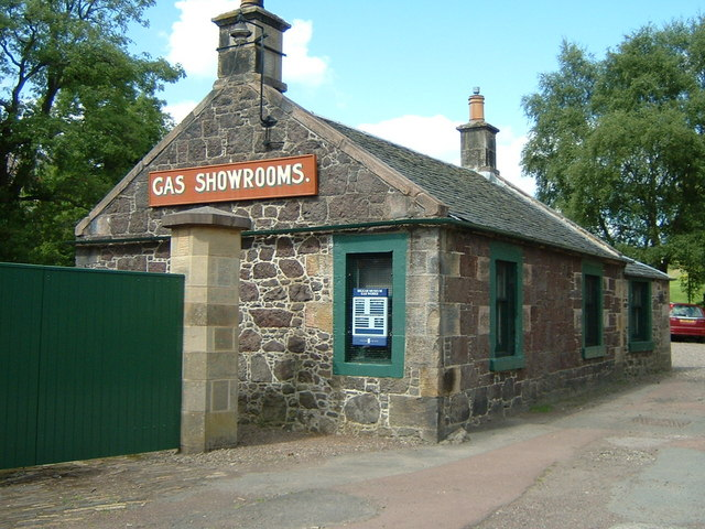 Entrance, Biggar Gasworks Museum A wonderful museum displaying the way coal gas was manufactured for local supply.